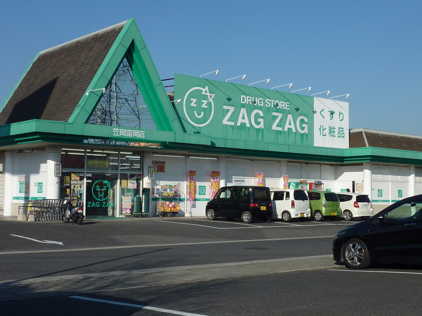 Drugstore "ZAG ZAG" - Kasaoka-Tomioka Store (Kasaoka City, Okayama Prefecture, Japan